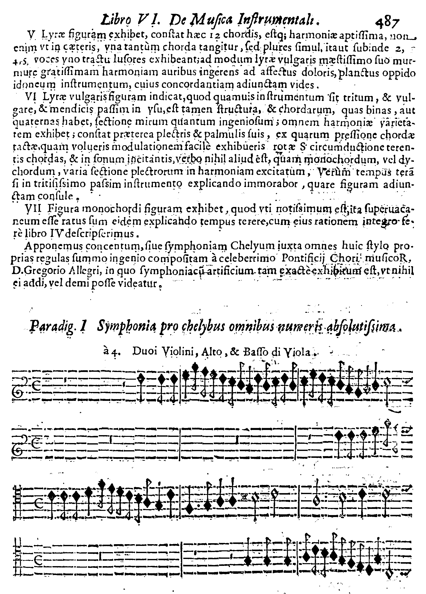 Page 487 from Musurgia Universalis.